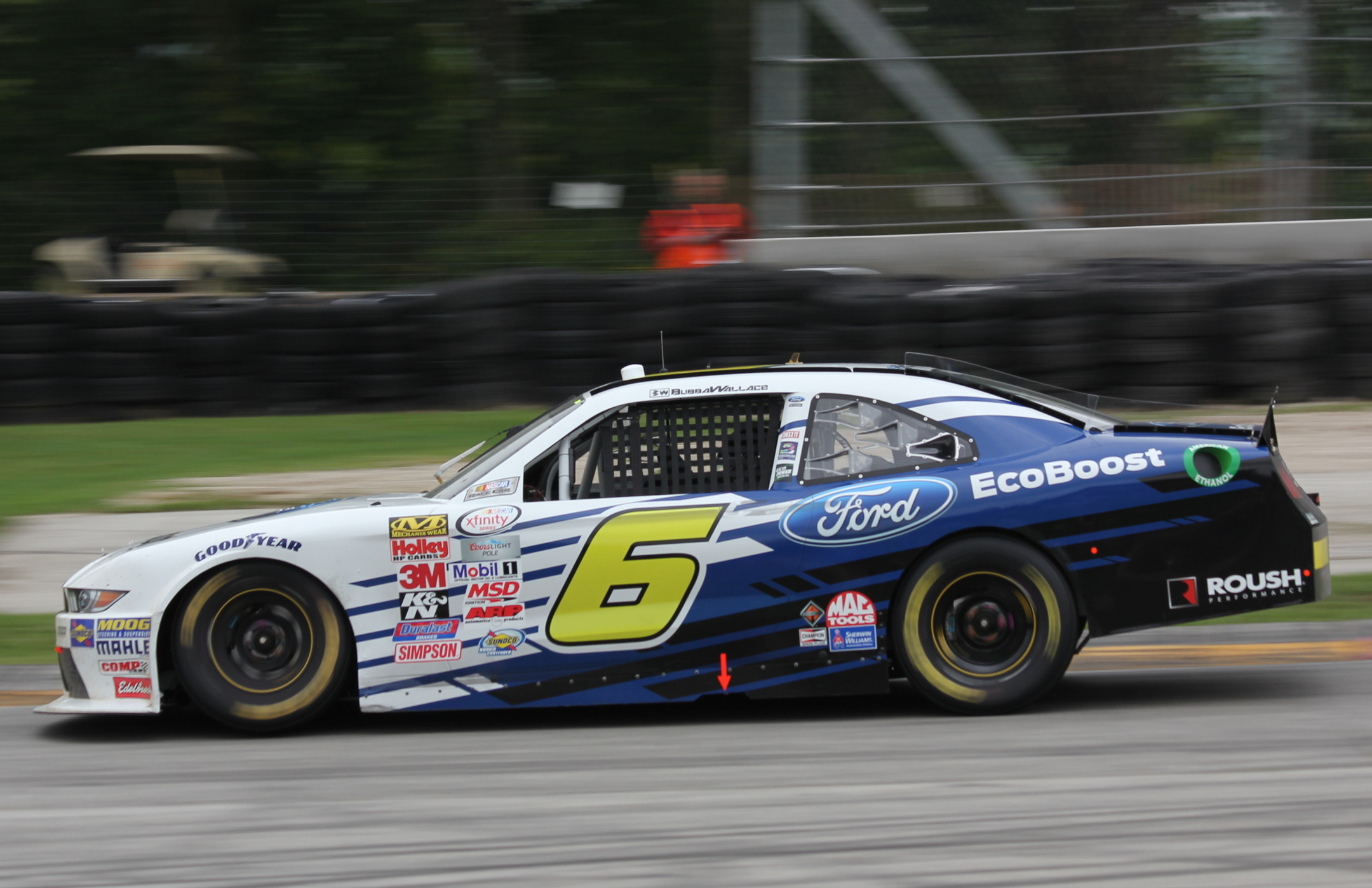 The NASCAR Xfinity Series car of Darrell "Bubba" Wallace, Jr. turning left in Turn 6 at Road America.